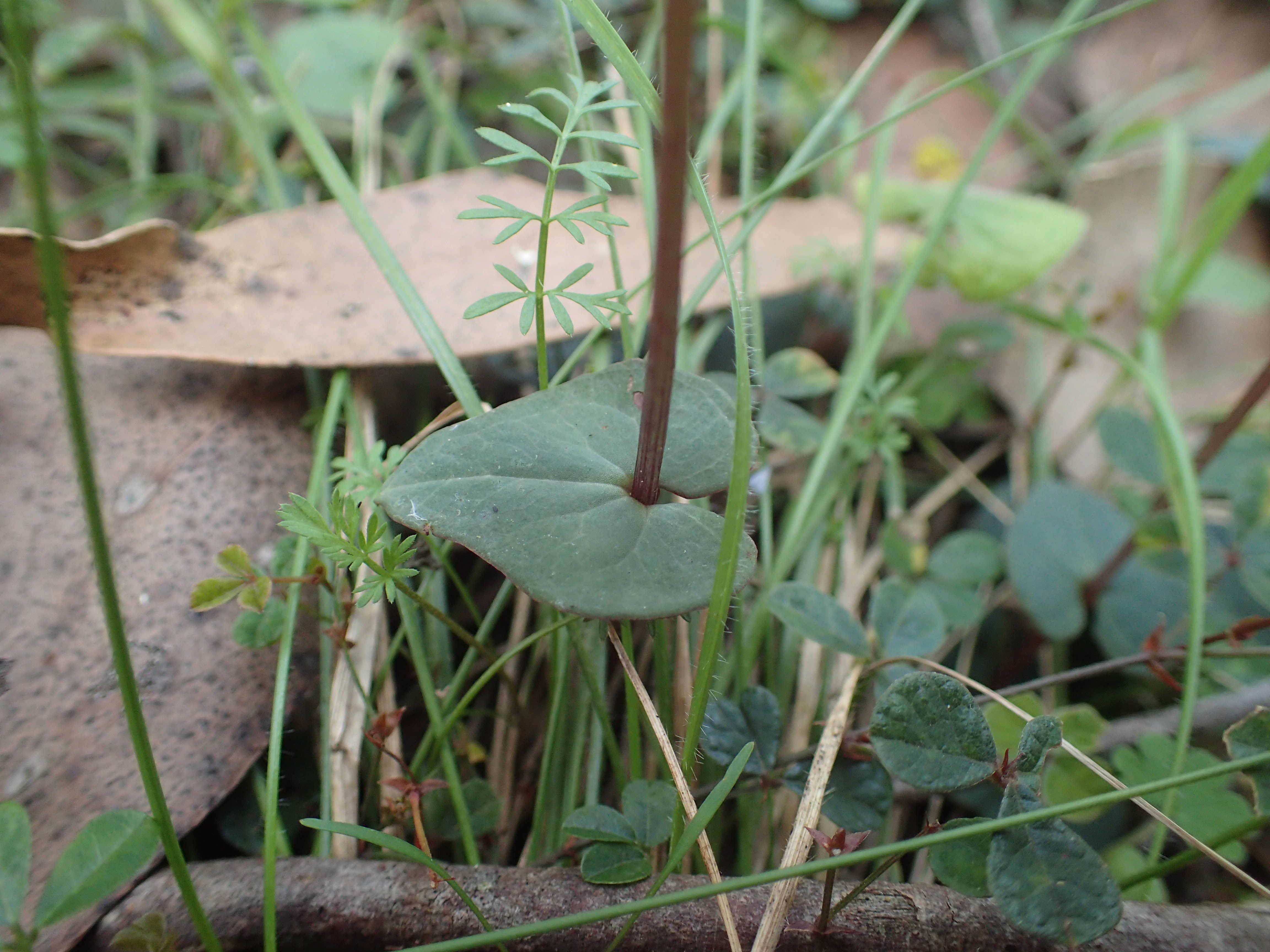 Acianthus apprimus syn. of Acianthus fornicatus growing near Ebor